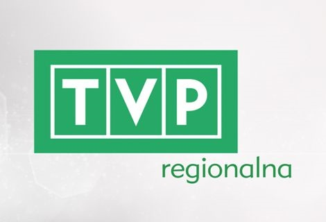 Logo of TVP Regionalna